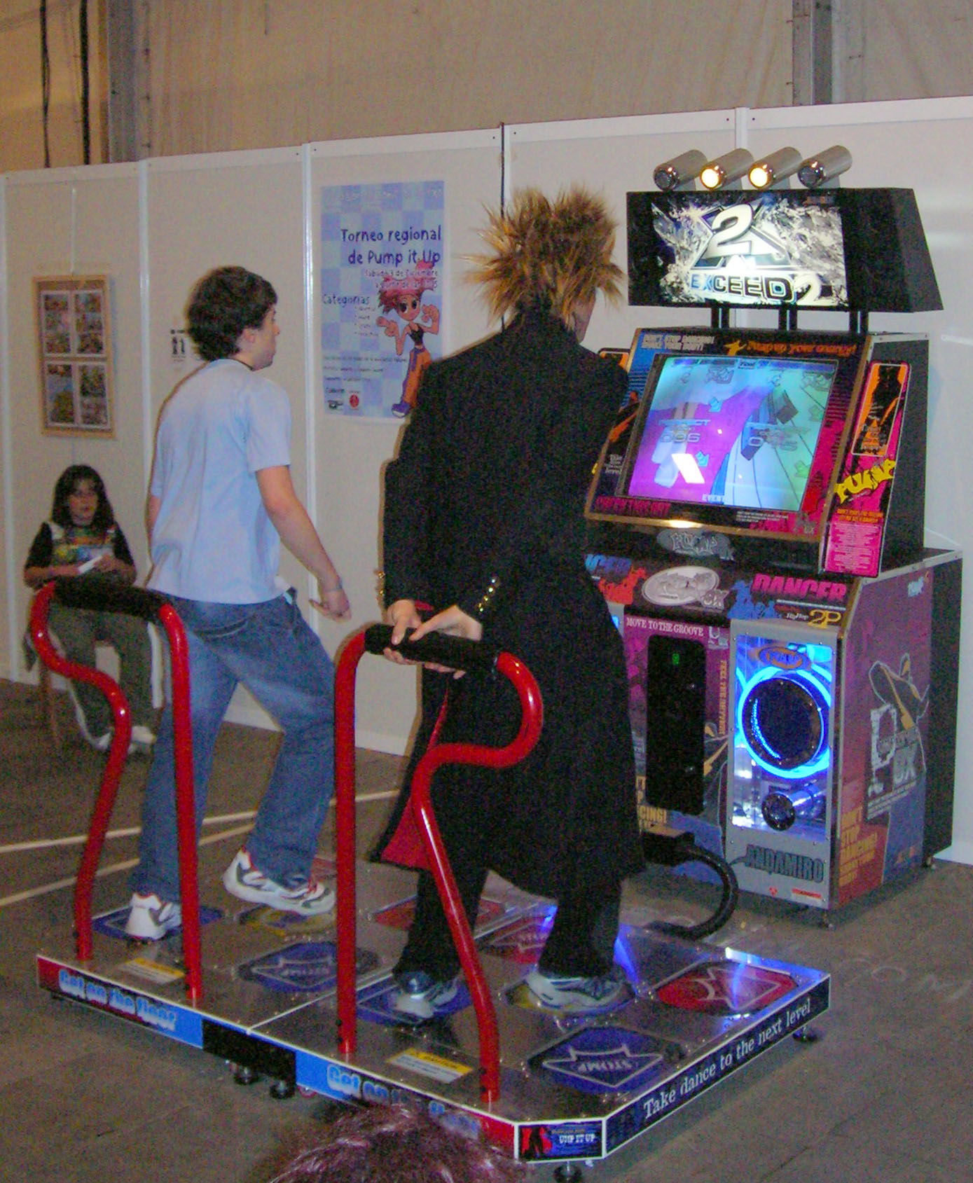 Playing Pump it up and cosplay at IV Getxo Comic Con.